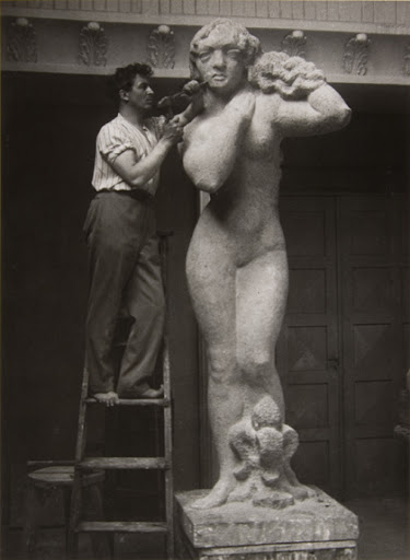 Wäinö Aaltonen making the statue Turun Lilja.